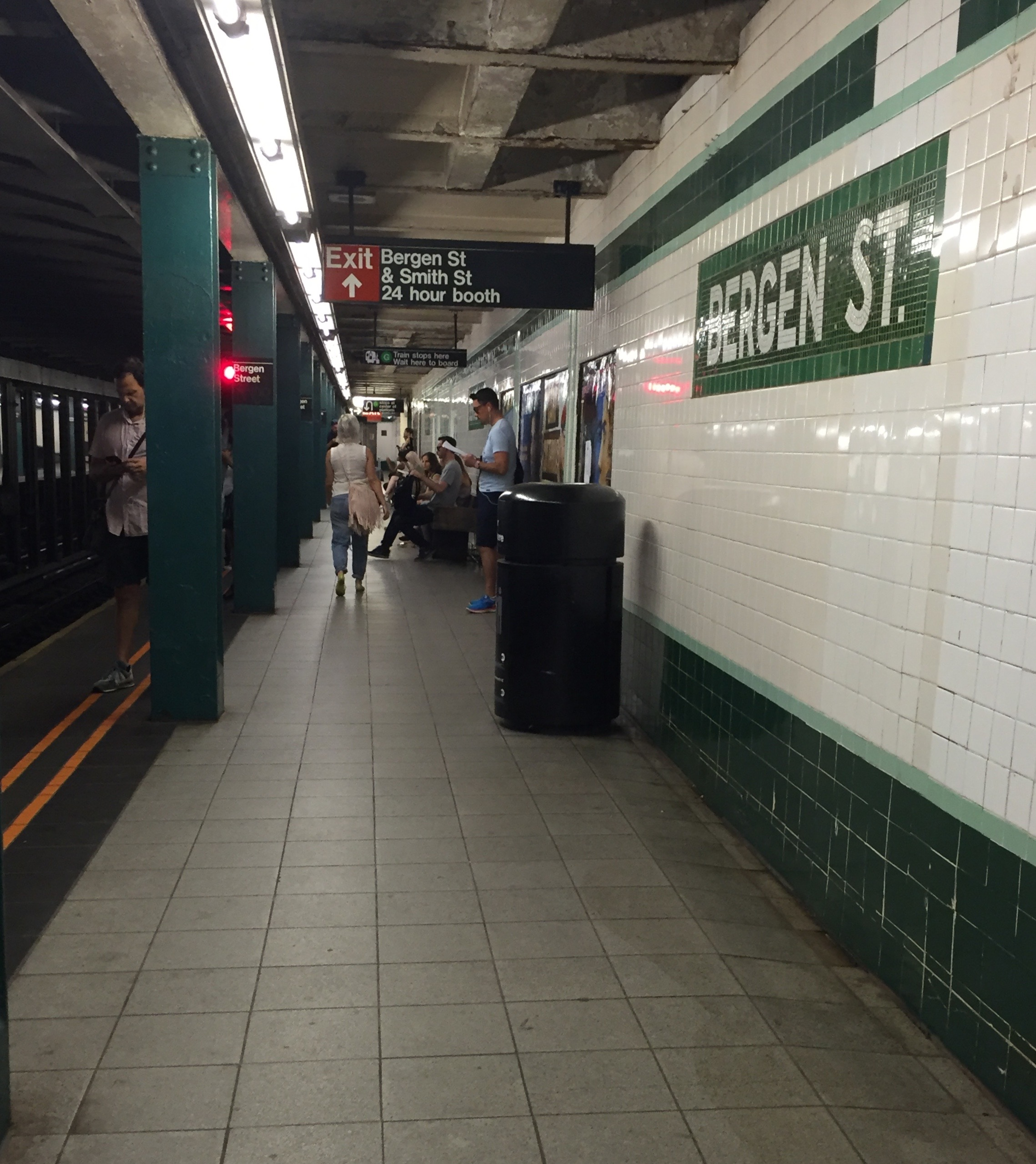 Manhattan/Queens bound platform at Bergen Street on the F/G.